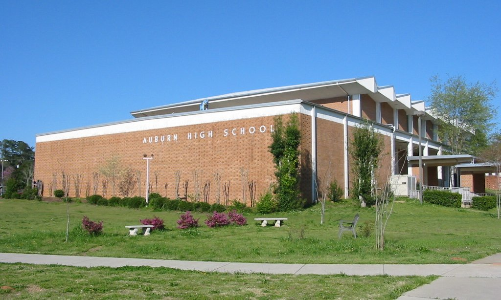 Photograph of Auburn High School, Auburn, Alabama.